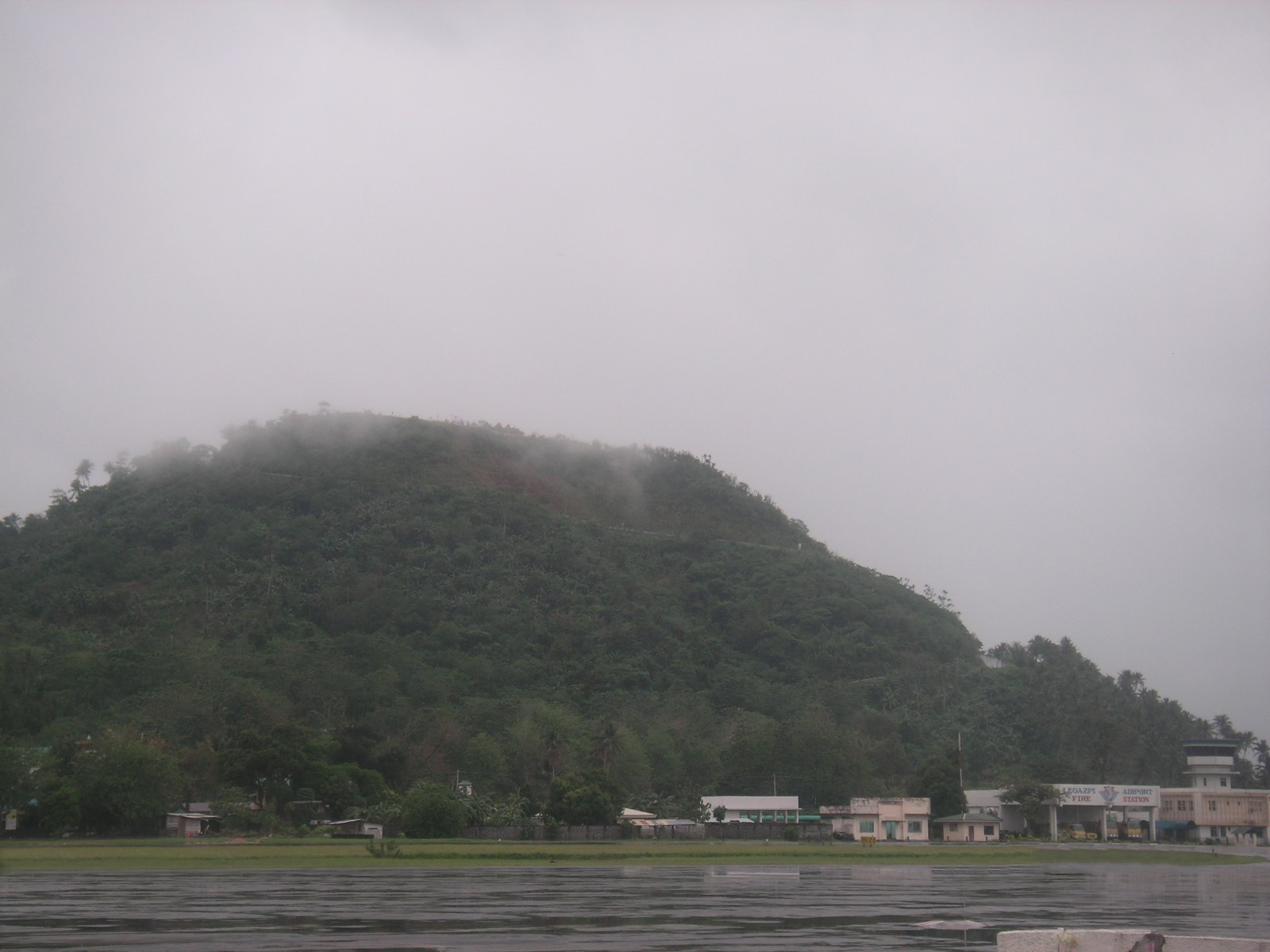 Ligñon Hill as viewed from the Legazpi Airport